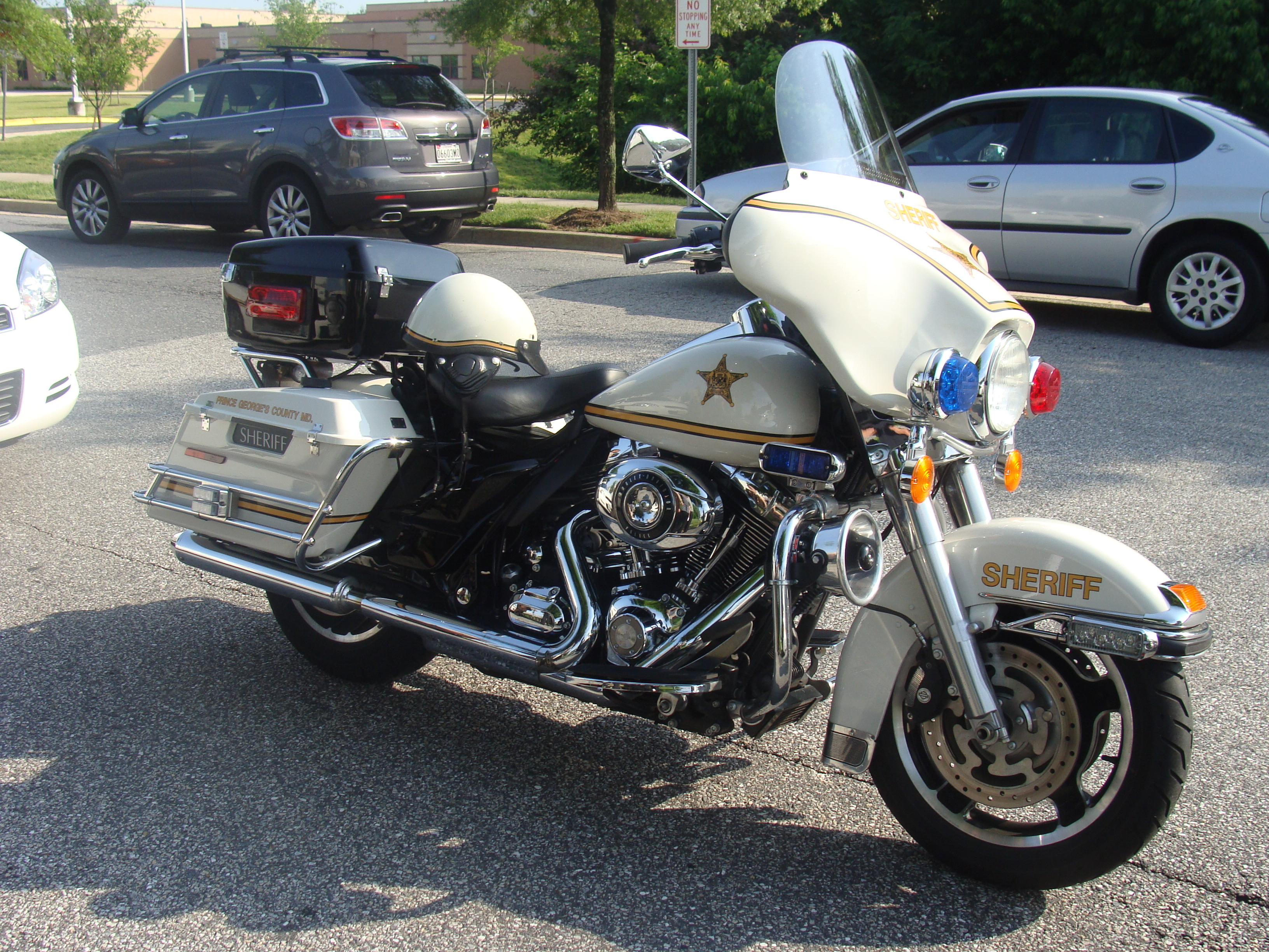 A marked Harley-Davidson police edition motorcycle of the Prince George's County Sheriff's Office.